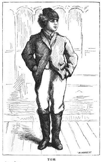 Illustration from: An Old-Fashioned Girl. By L.M. Alcott. Boston: Roberts Bros, 1870